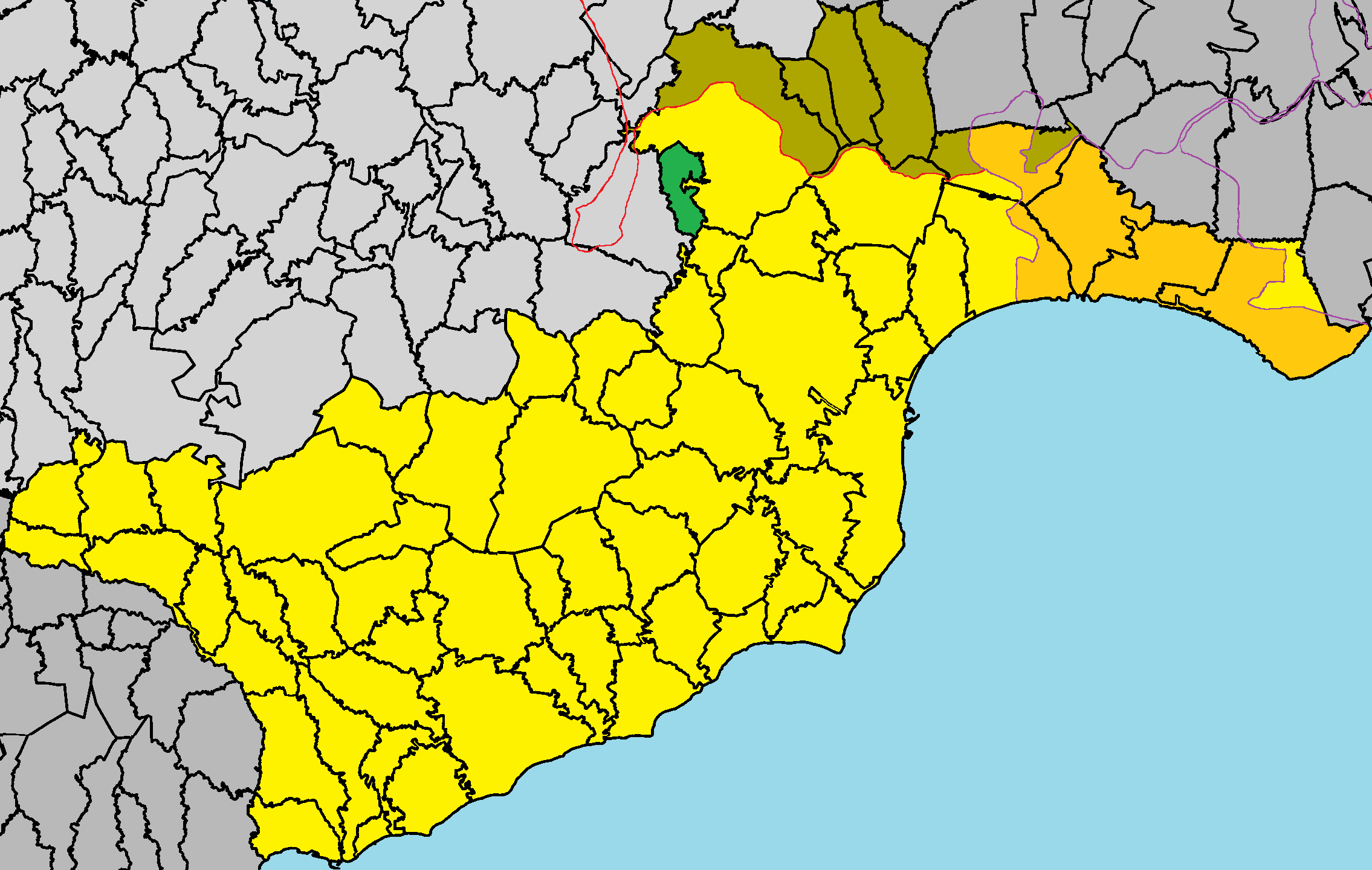 Petrofani in Larnaca District.